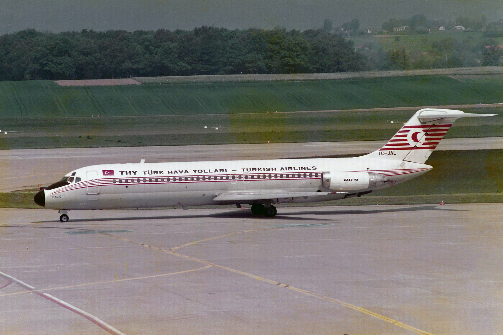 Geneva - International (Cointrin) (GVA / LSGG) Switzerland 5.1984